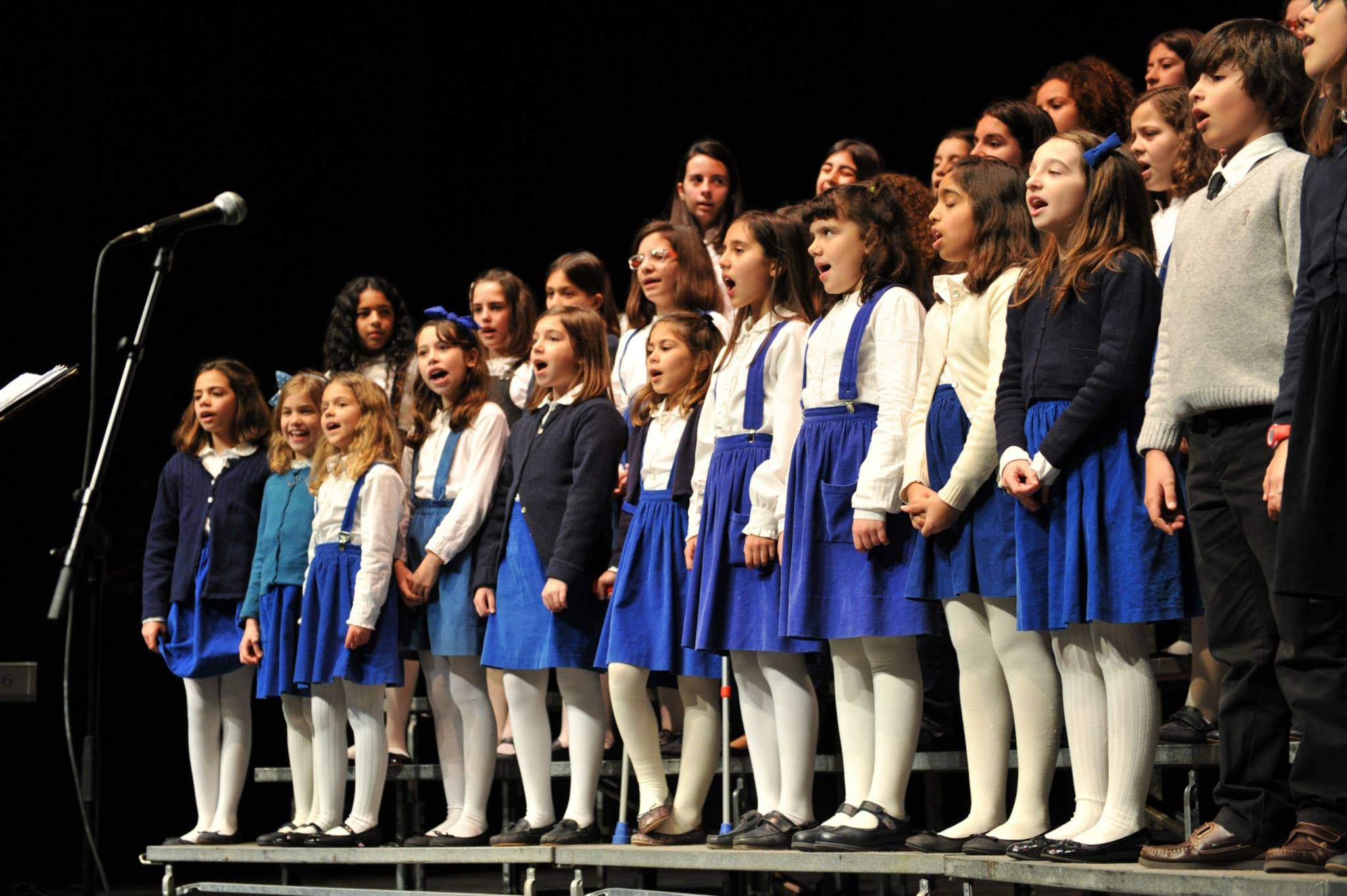 Concerto do Coro Infantil de Santo Amaro de Oeiras